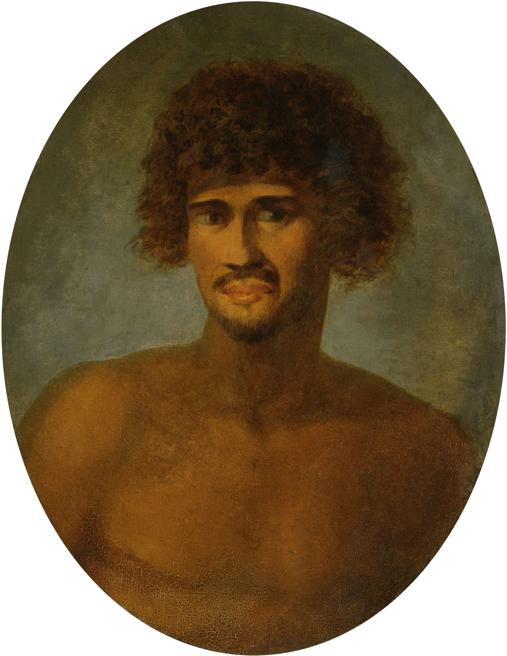 Head and shoulders portrait of a young Tahitian male.